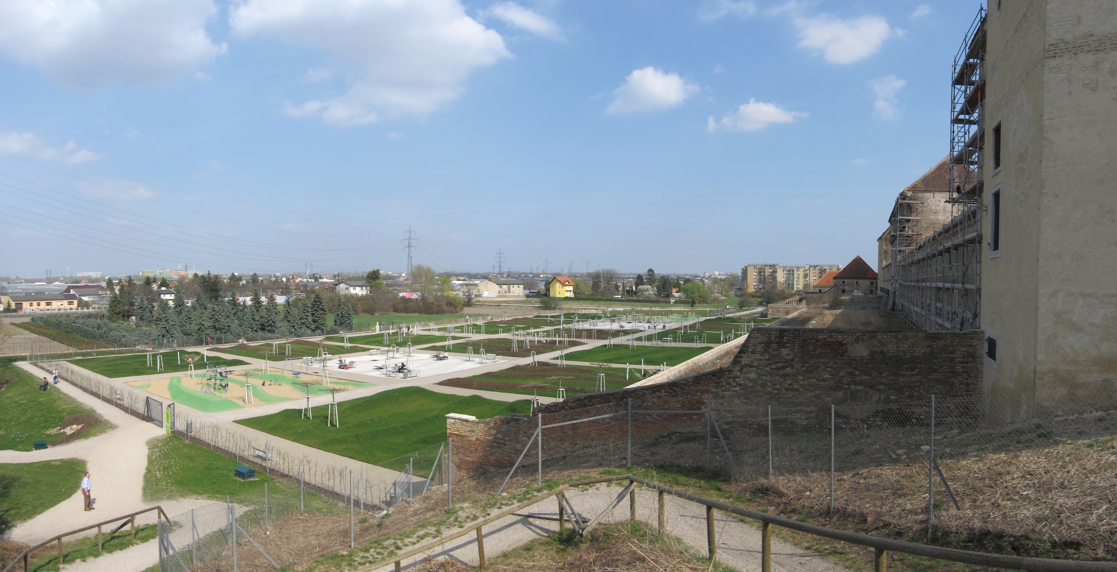 Neugebäude Palace in Vienna.